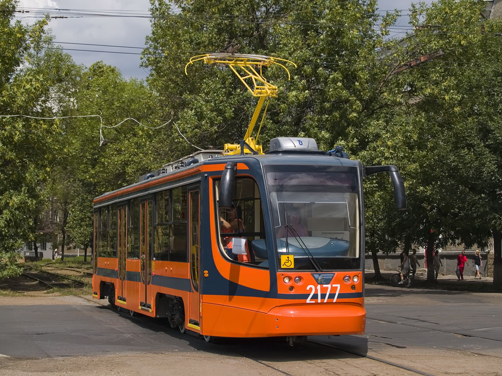 =71-623 tram #2177, Ufa.